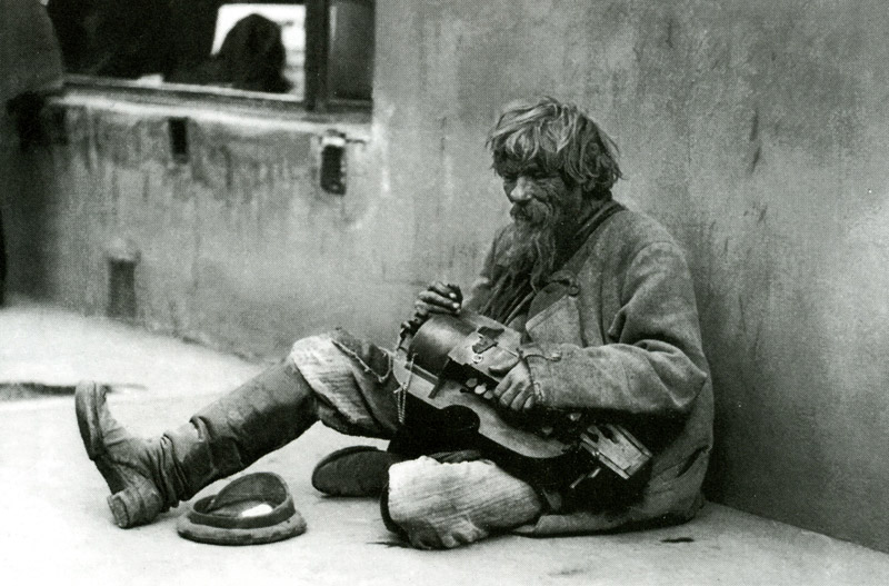 Beggar with a Ukrainian Lyra (Lirnyk), Moscow.